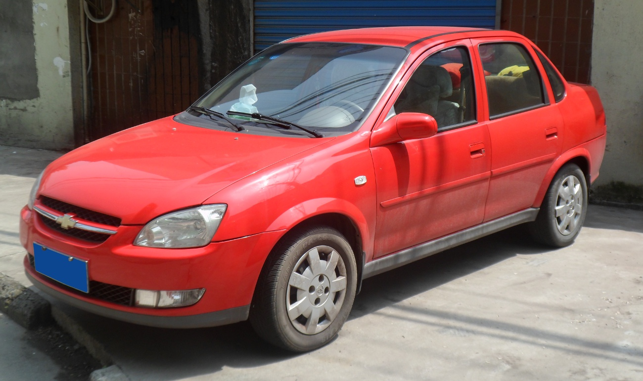 Chevrolet Sail photographed in Shanghai, China.